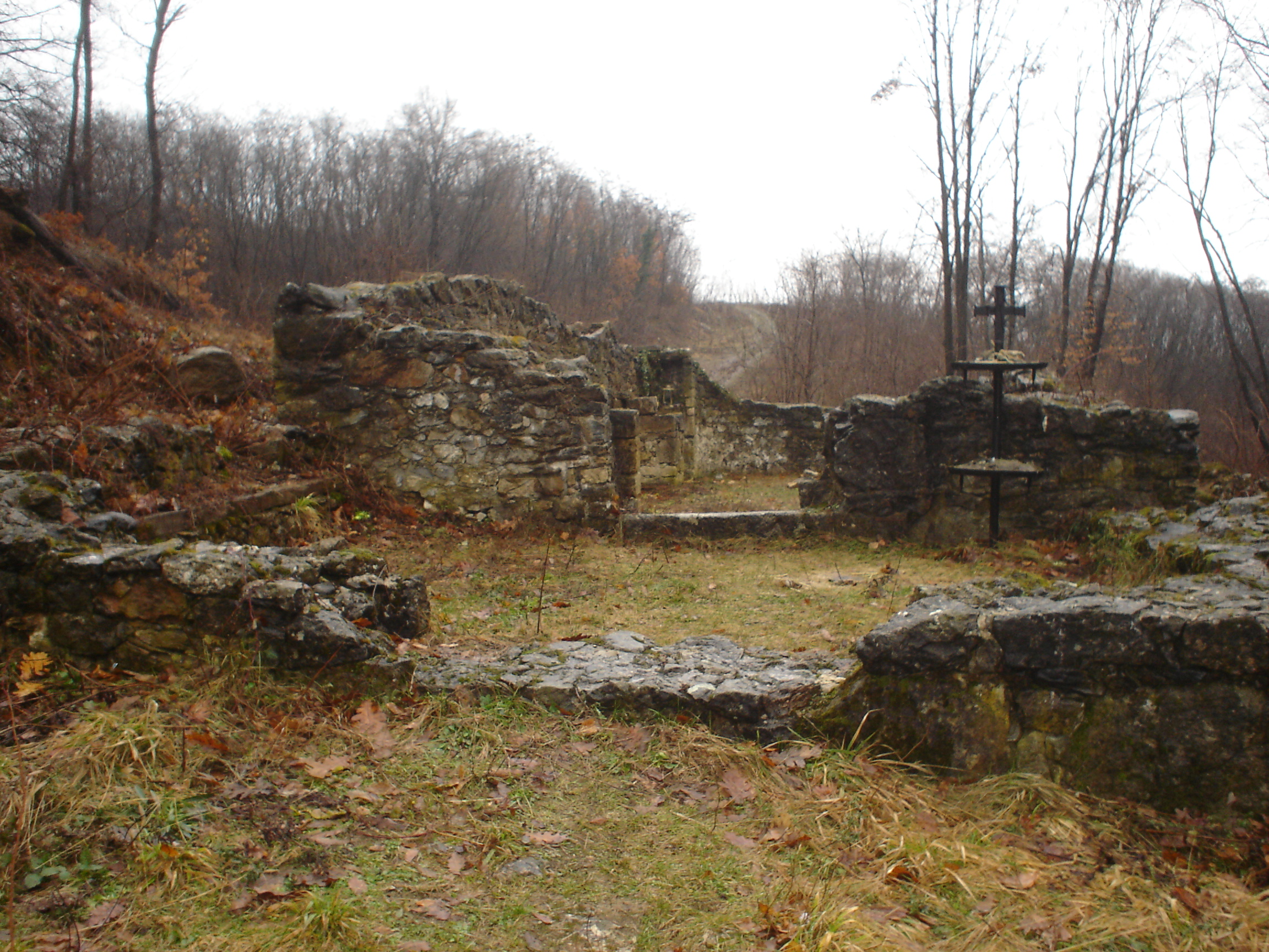 Monastery Kastaljan (Kasteljan) in Nemenikuće on Kosmaj, near Mladenovac, Serbia.